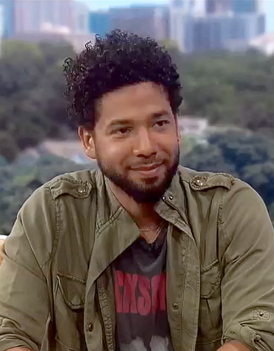 Jussie Smollett in 2018